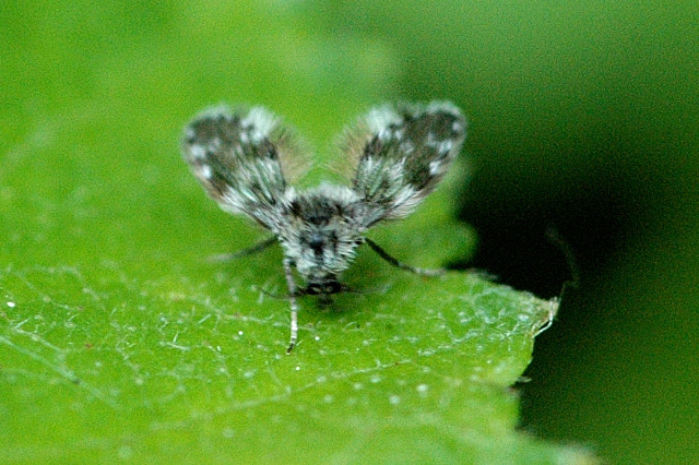 Picture taken in Commanster, Belgian High Ardennes . Species: Ulomyia fuliginosa